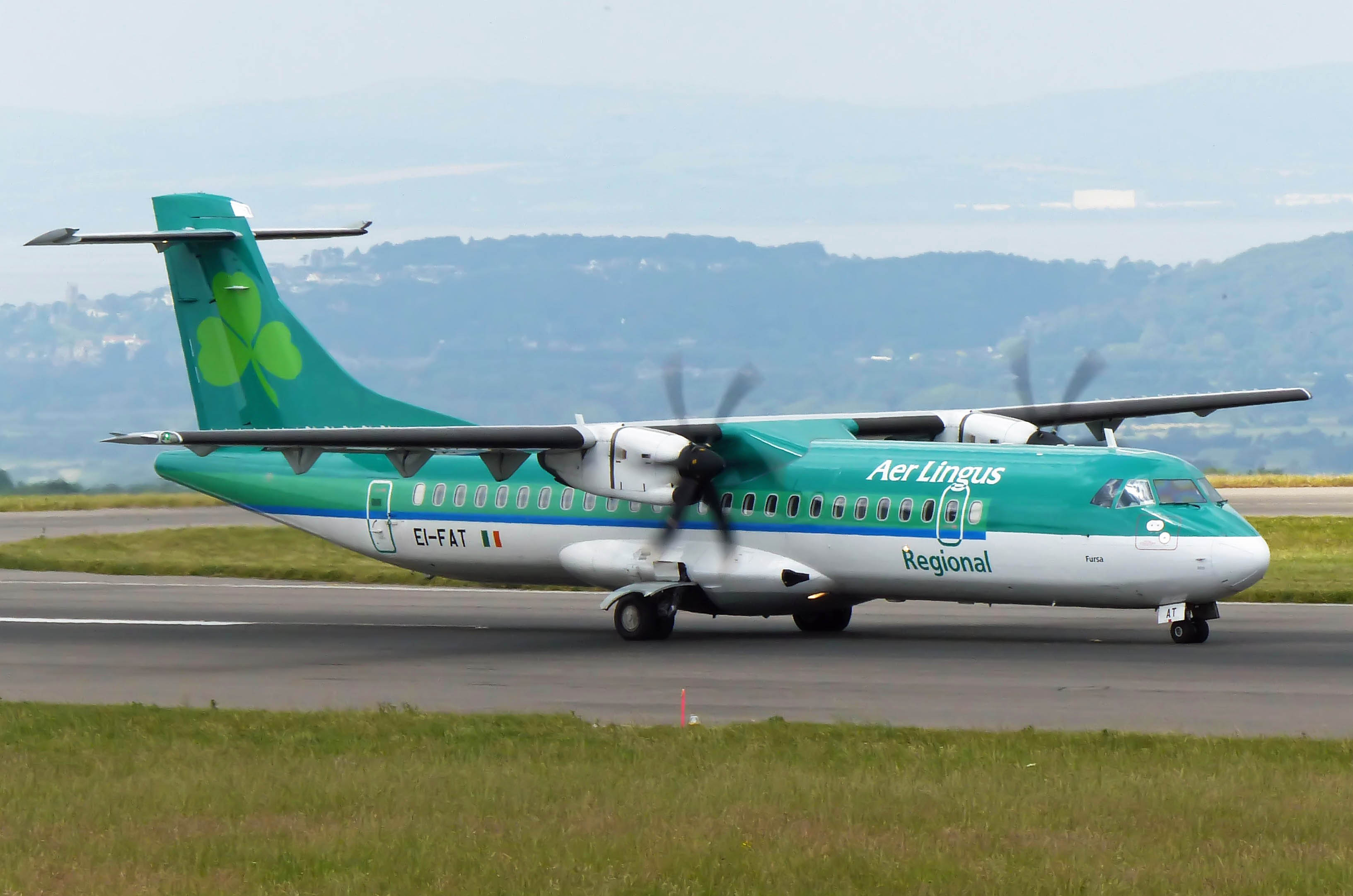 An ATR 72-600 of Aer Lingus Regional (EI-FAT), operated by Stobart Air, on the takeoff run at Bristol Airport, Bristol, England. Background info: 1. The airport name was Bristol International Airport but with the ceasing of a Continental Airlines flight to Newark, USA, in November 2010, the airport authorities reverted the name to Bristol Airport. 2. Aer Arann has transferred all of its own-operated flights to the Aer Lingus Regional brand. On 19 March 2014, Aer Arann announced that it would be changing its name to Stobart Air by the end of 2014. Stobart Air therefore now (June 2014) operate the Aer Lingus Regional flights.